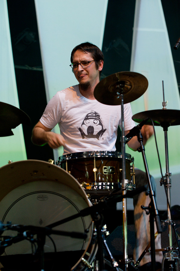 Mirek Pyschny, moers festival 2012